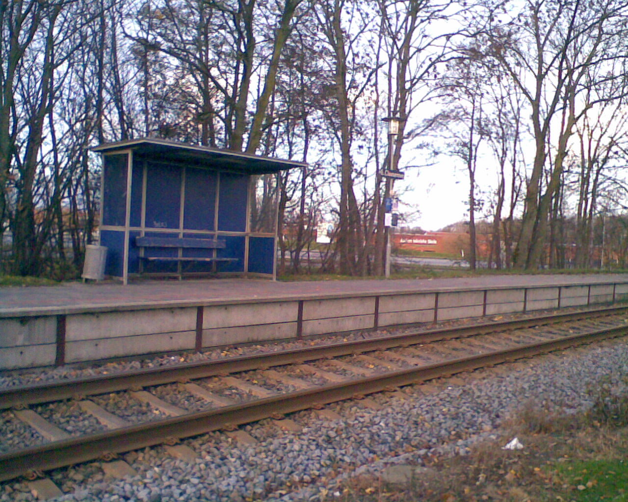 Gunnar Clausens Vej Station, Århus, Denmark